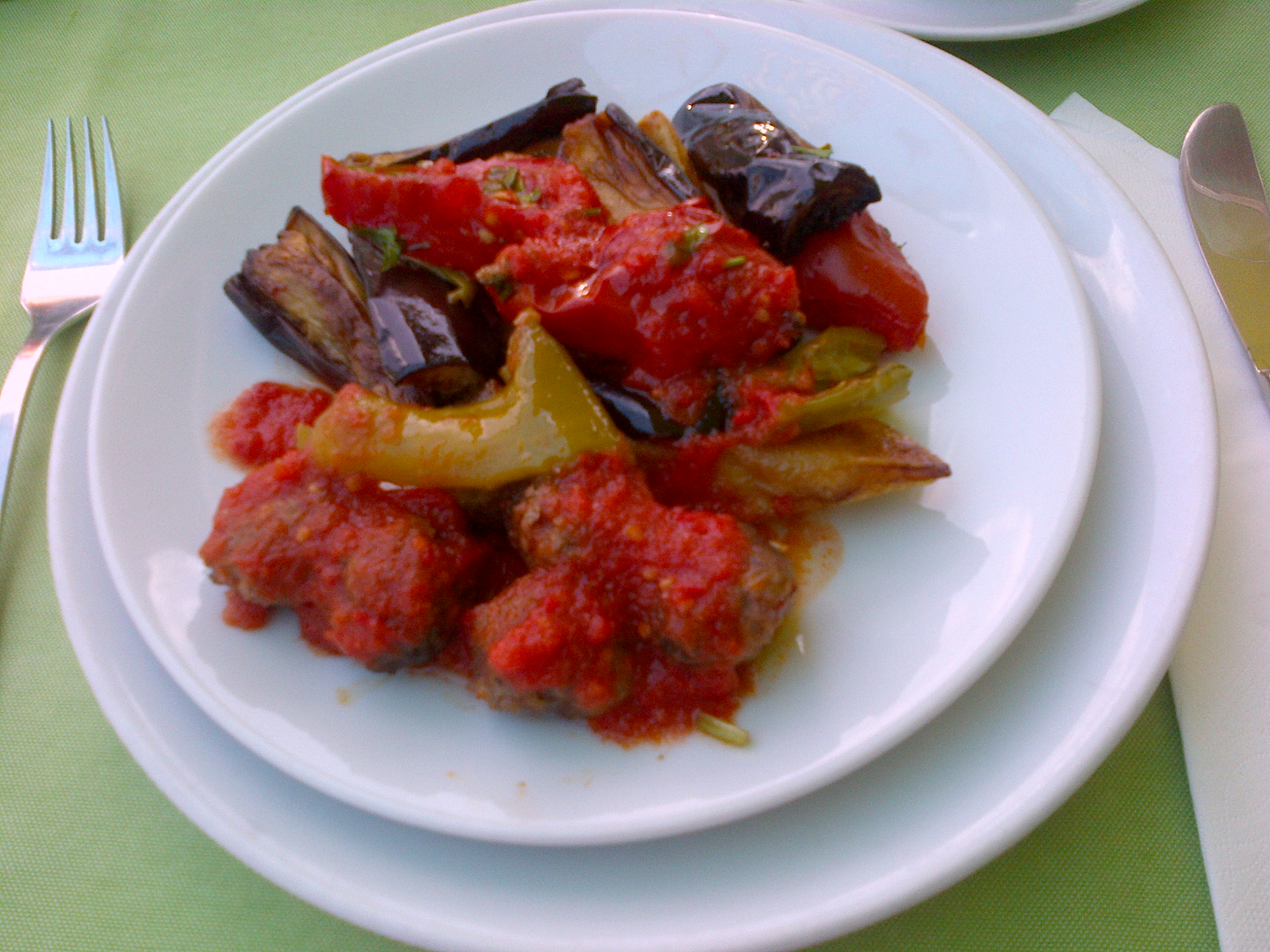 Patlicanlı köfte is a beef meatball stew with eggplats (and sometimes also potatoes) from the Turkish cuisine.